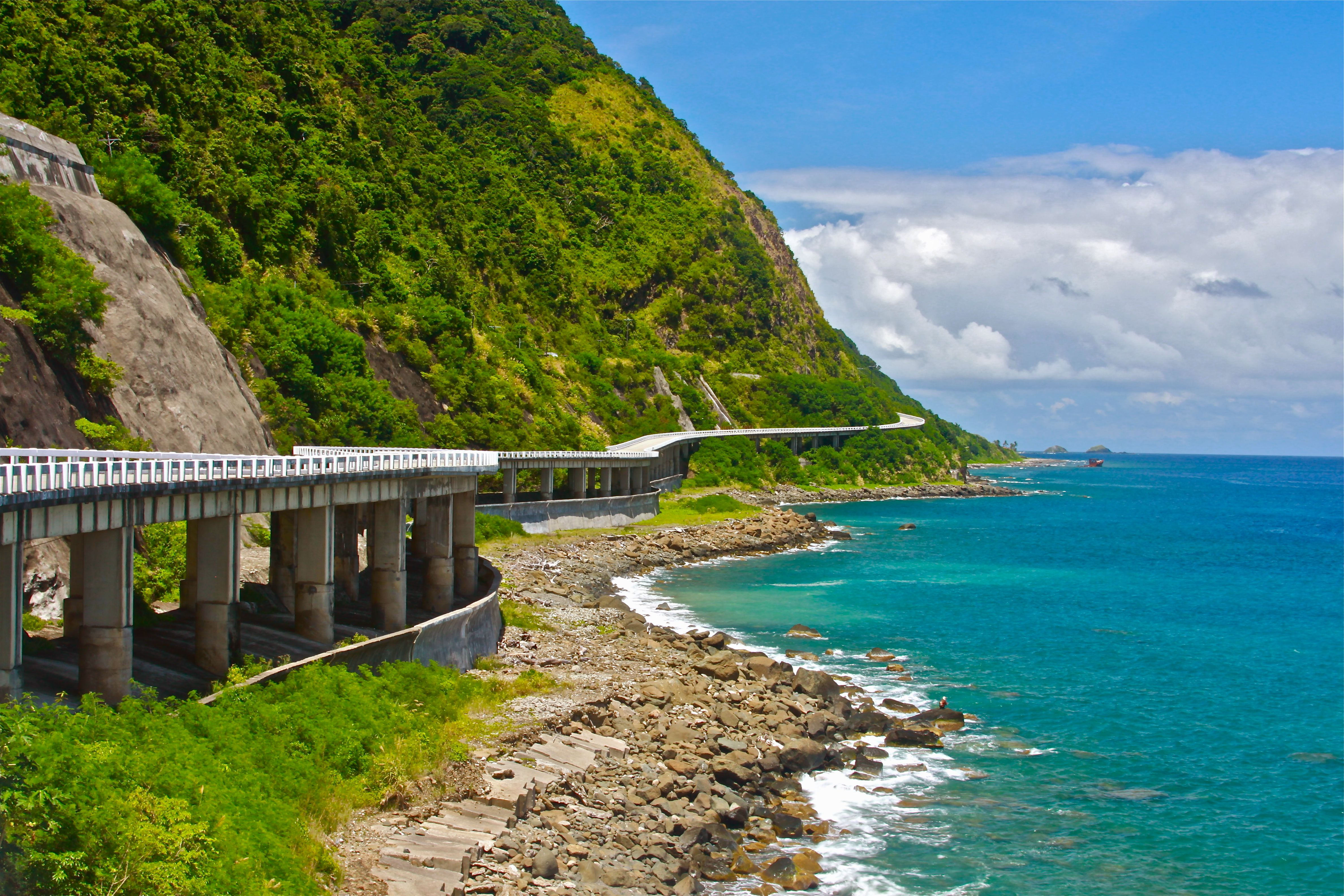 The Patapat viaduct in Pagudpud, Ilocos Norte